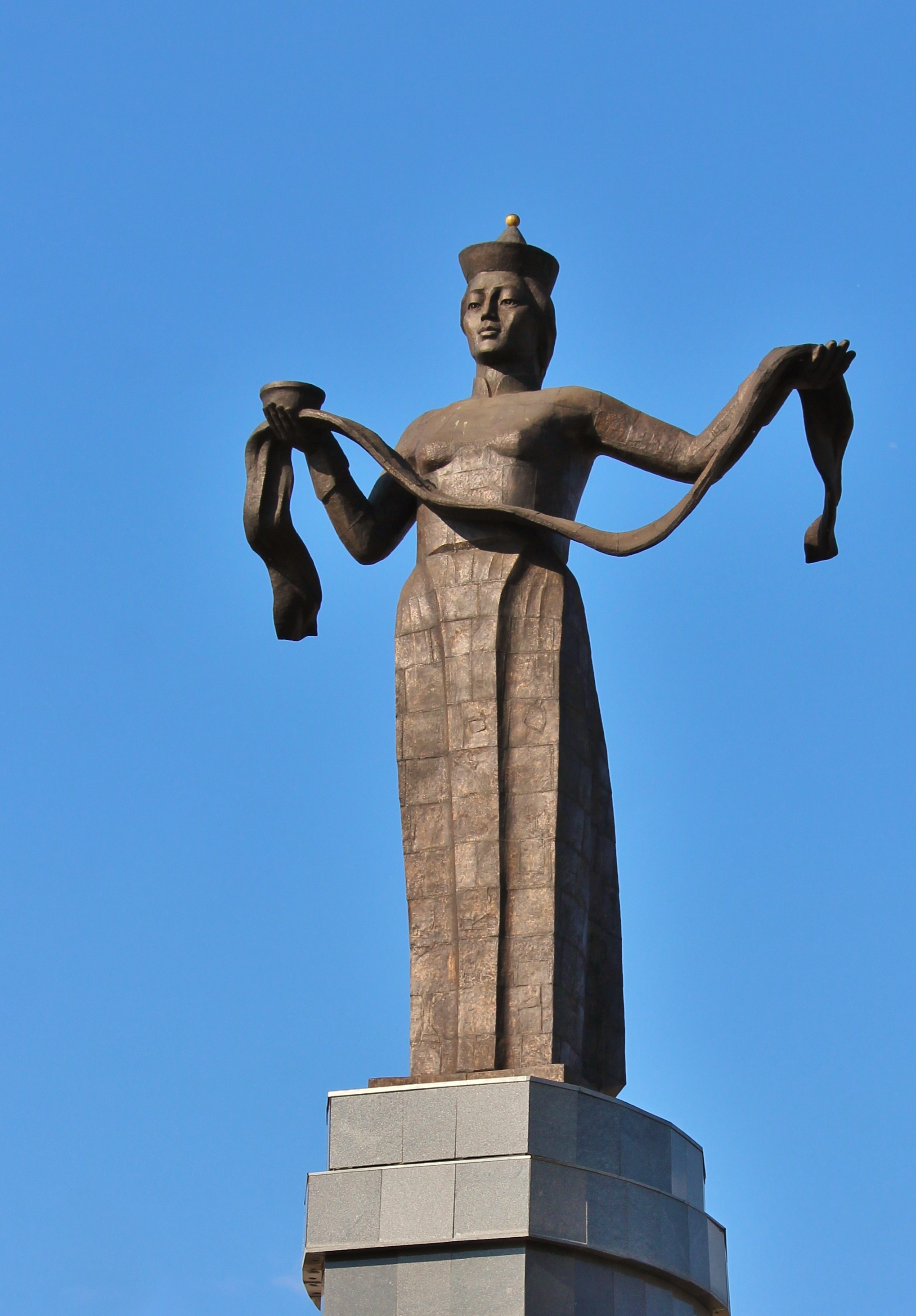 Monument "Hospitable Buryatia" (Mother of Buryatia). Ulan-Ude, Siberia